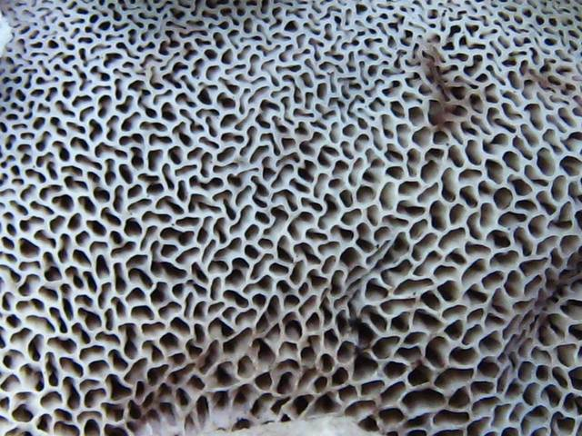 Strobilomyces floccopus